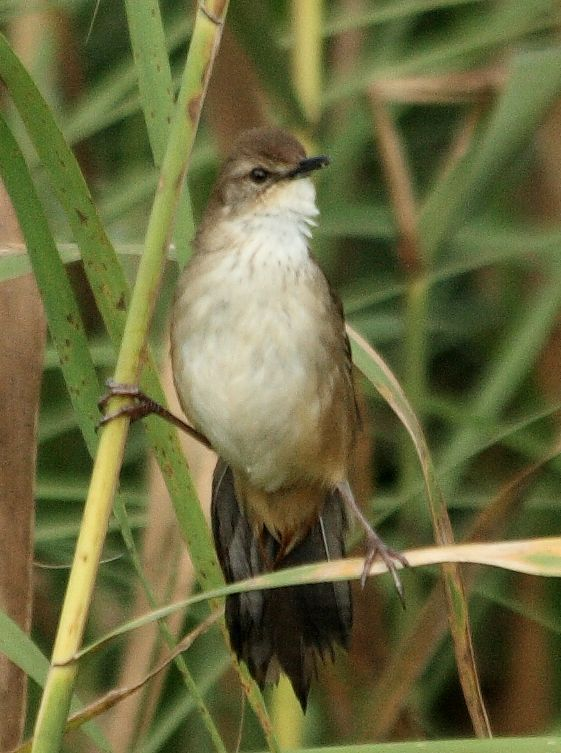 A little skulker with a characteristic krrup krrup call. Location: Cedara Farm, Pietermaritzburg, South Africa.